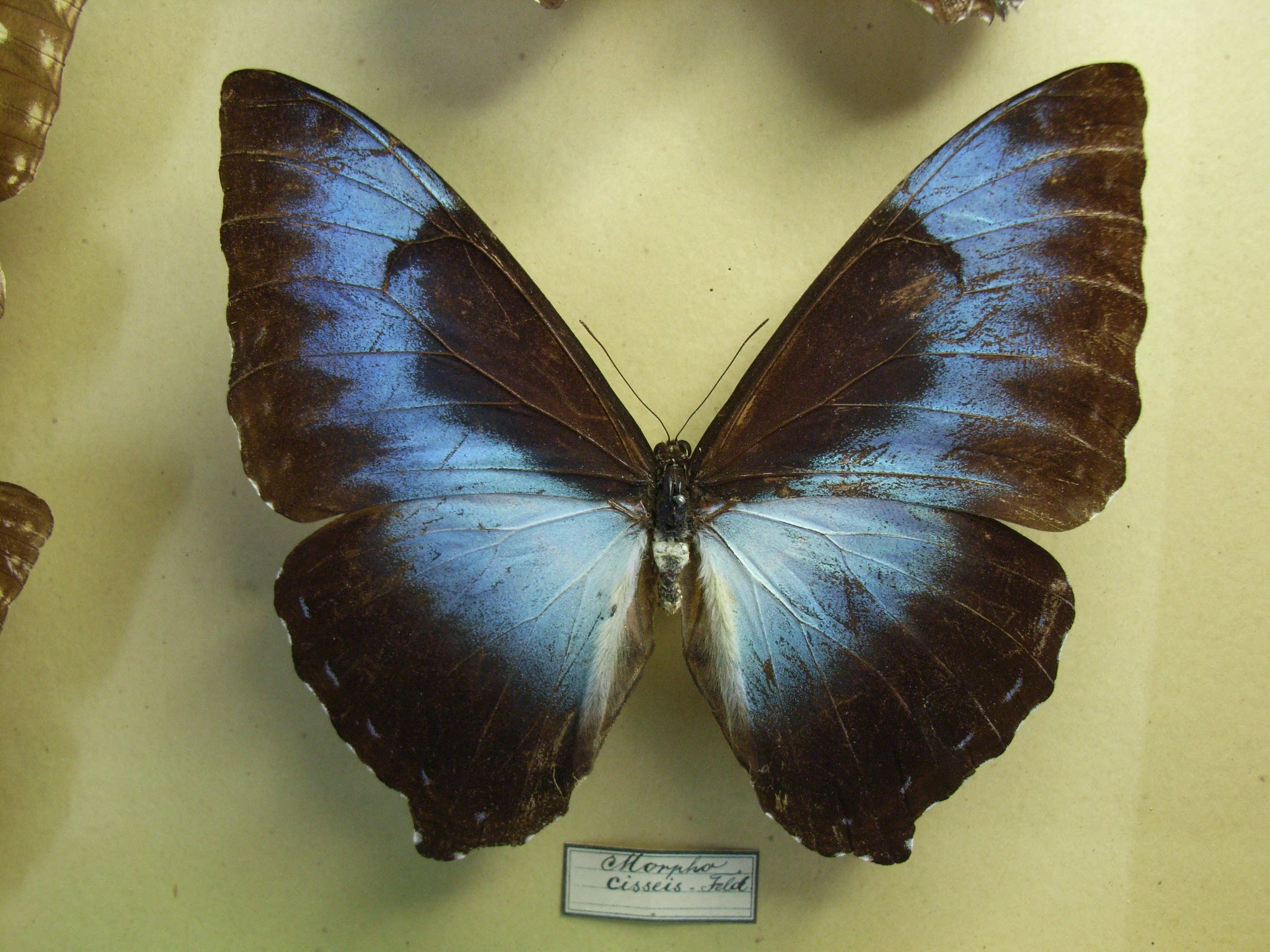 Morpho cisseis Ex Coll Museum Wiesbaden